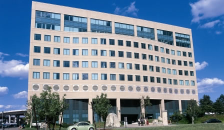 Hult Boston